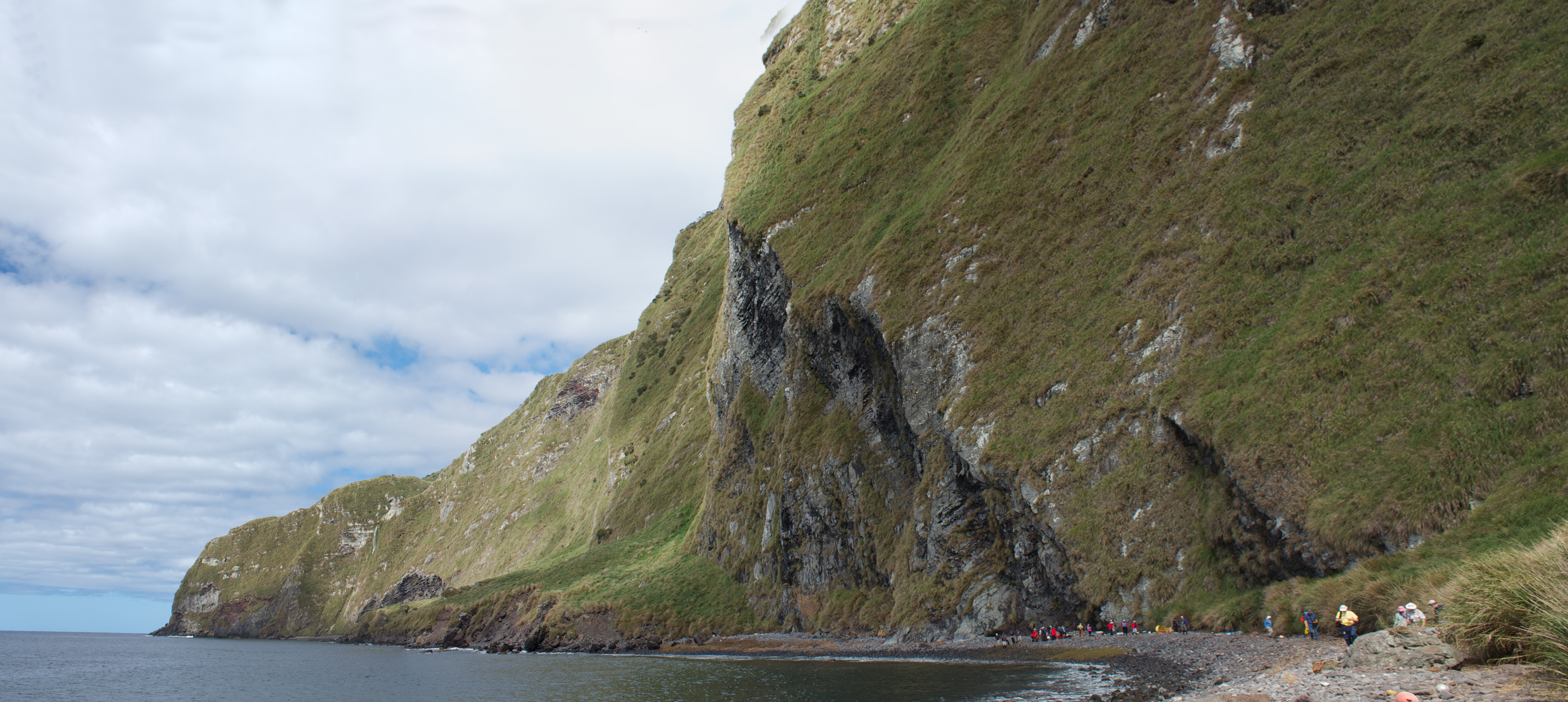 Beach on Inaccessible island